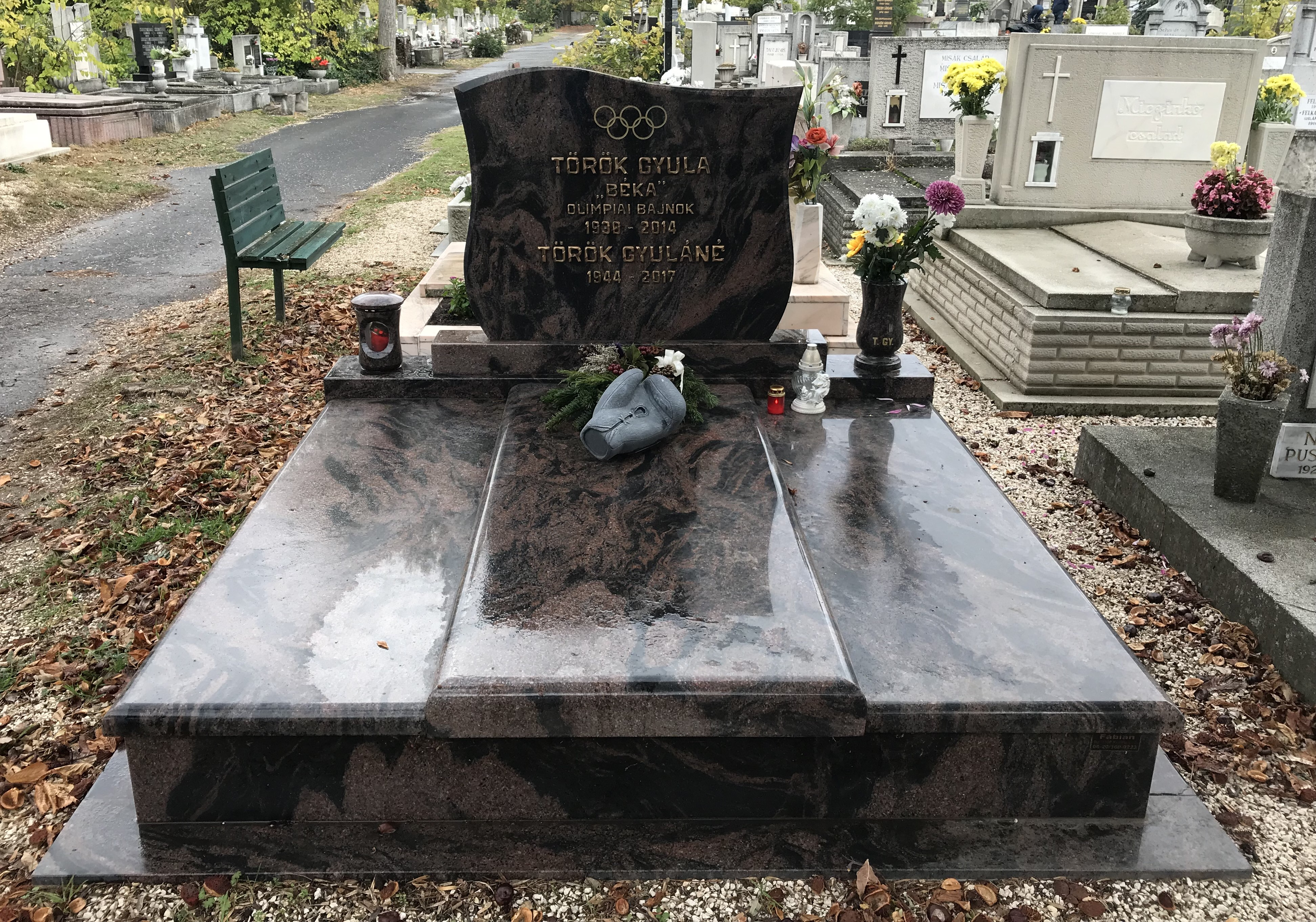 Tomb of Gyula Török Hungarian olympic boxing champion at Kispest Cemetery, Budapest.